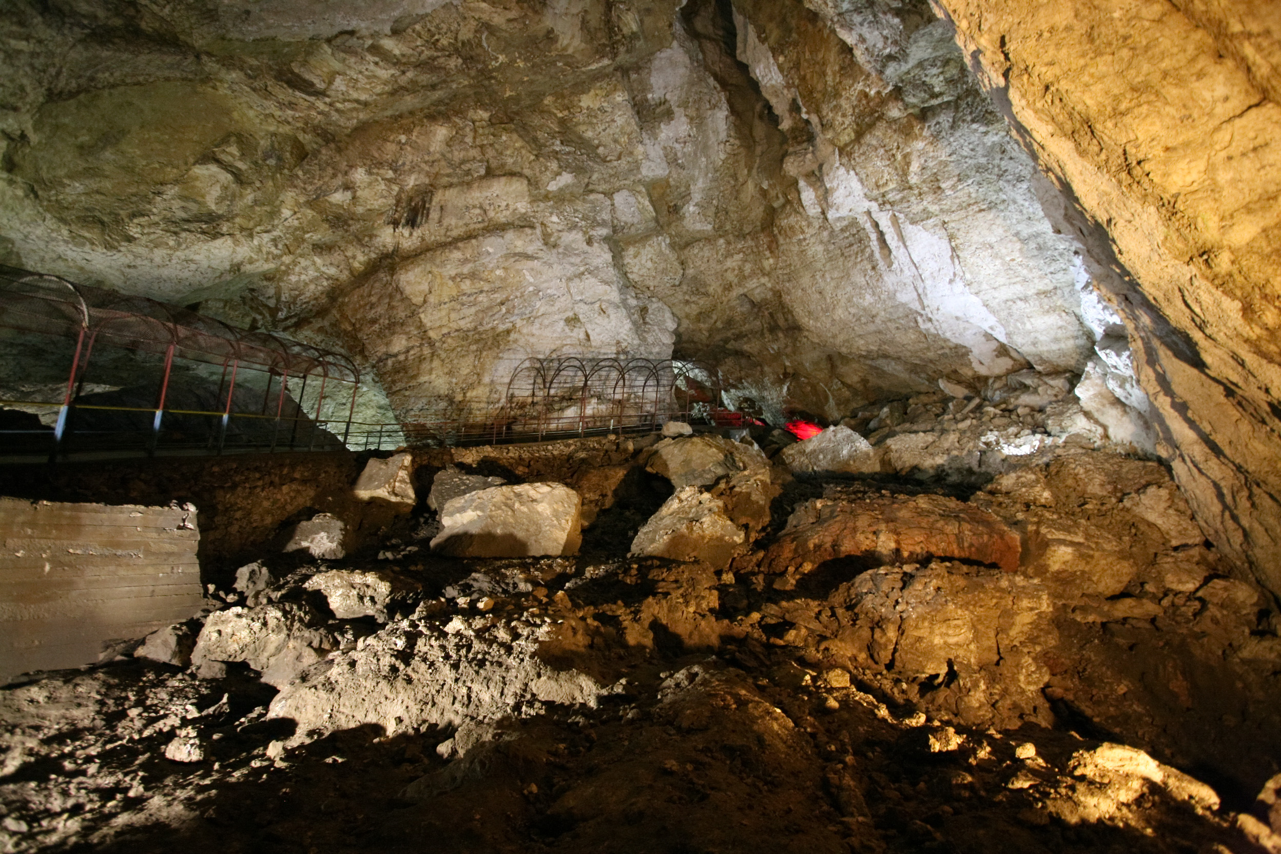 New Athos